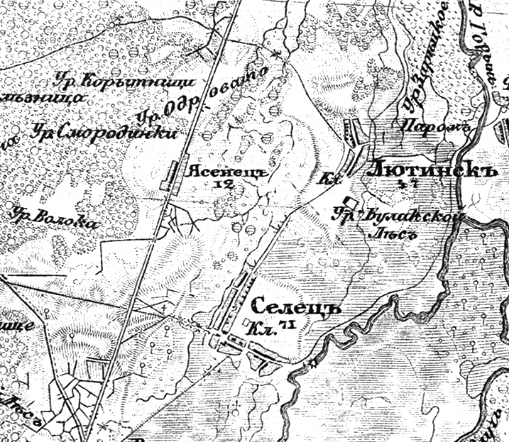 Liutynsk on the map "Военно-топографическая карта Российской Империи" (known as "Schubert's map"), XX 5, 1866-1887 (issued in 1913).